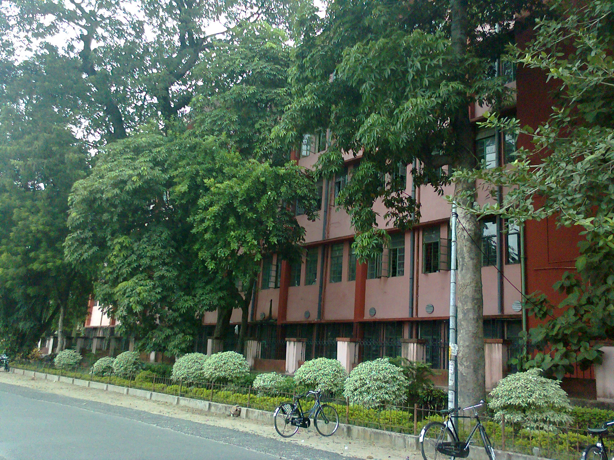 Chandannagar